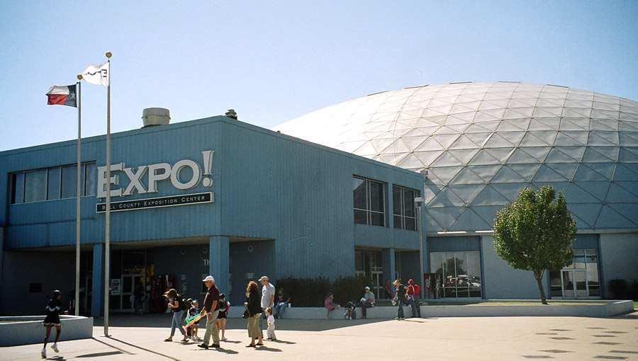 The Bell County Expo Center located in Bell County, Texas, United States.